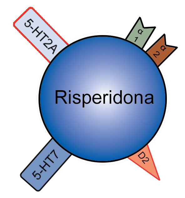 Resperidon receptor profile